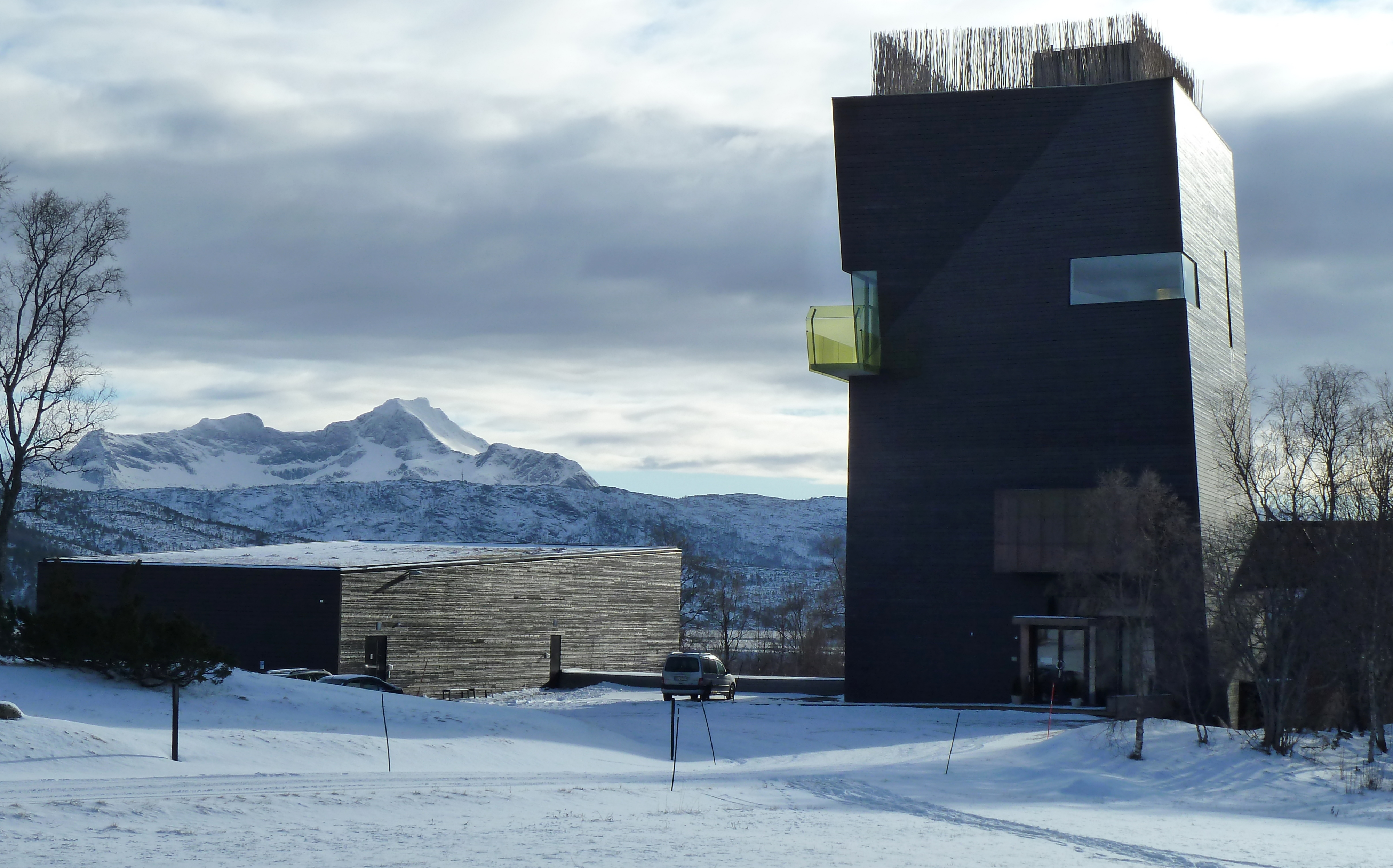 The Hamsunsenter is a center and museum dedicated to author Knut Hamsun situated in Presteid in Hamarøy, Norway.